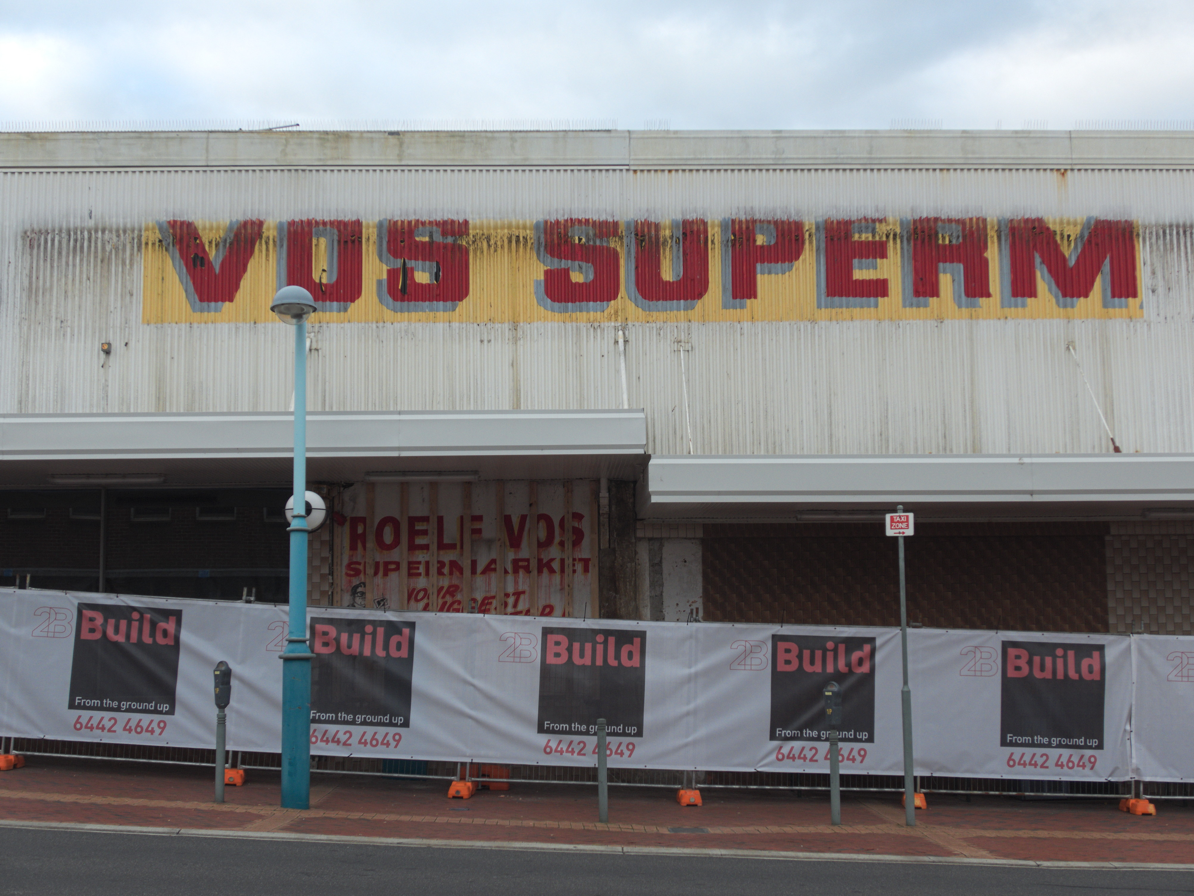 Shop under renovation in Wilmot Street in Burnie, with old signwriting for the Roelf Vos supermarket uncovered.